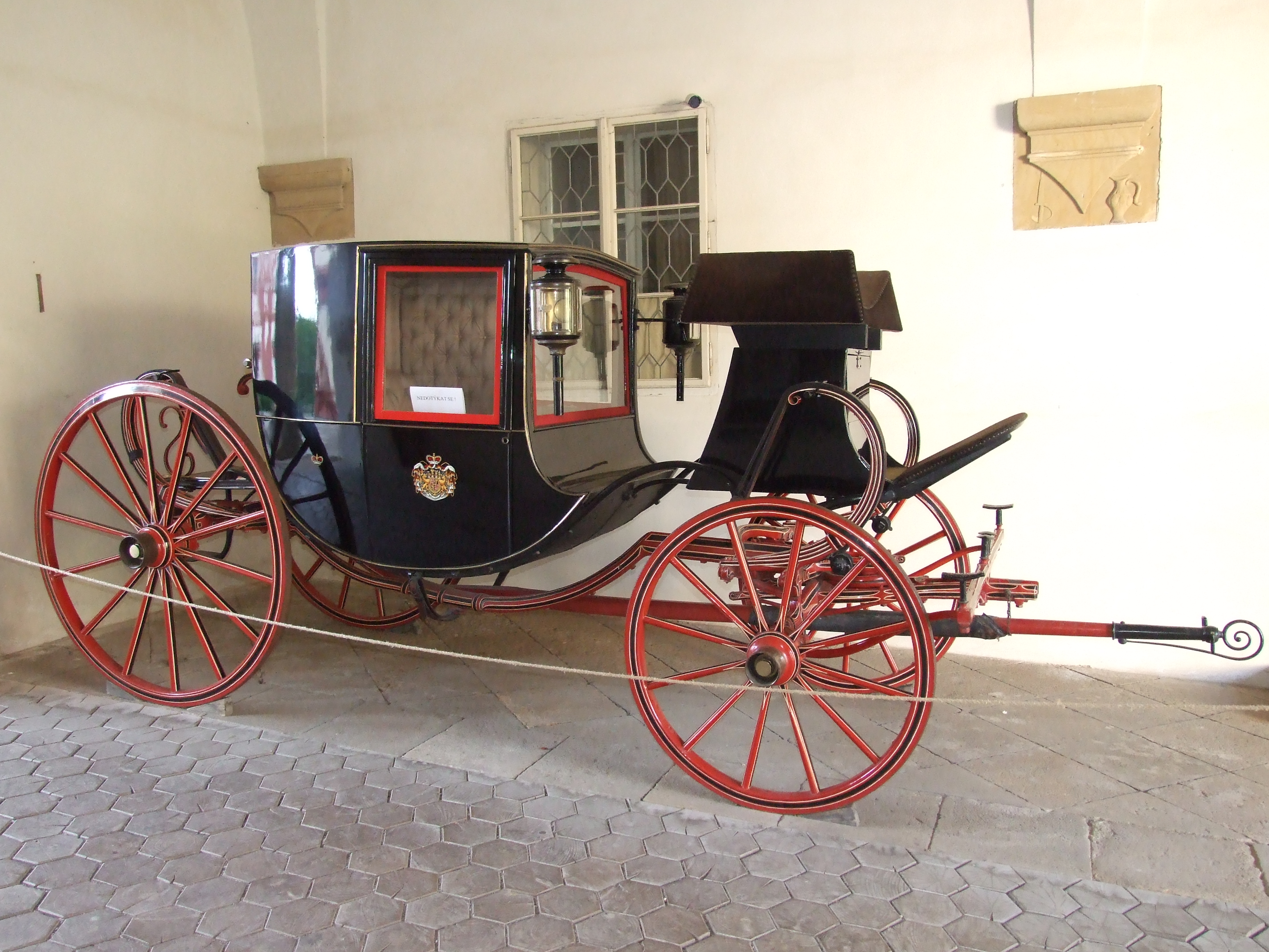 Opočno castle